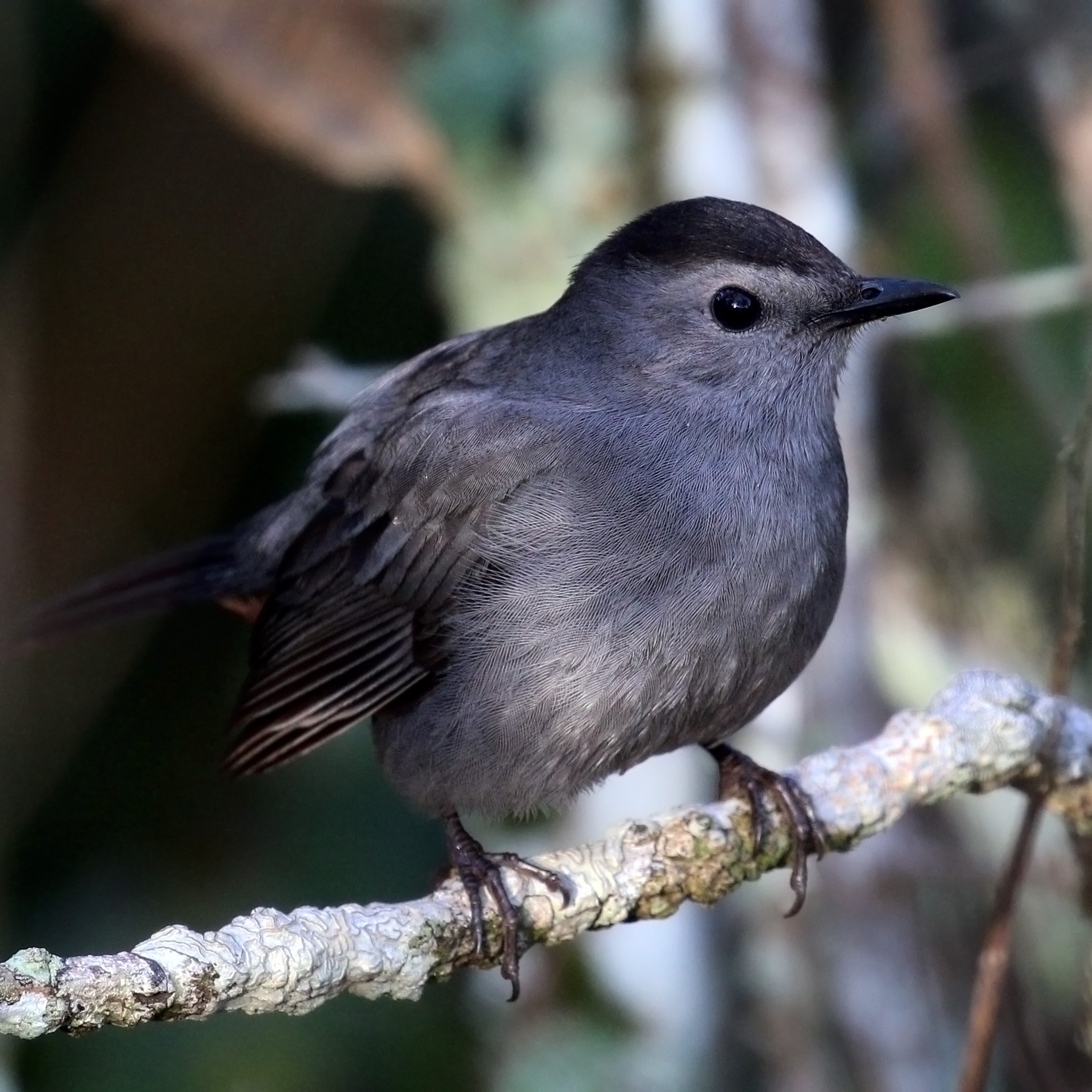 Gray catbird (Dumetella carolinensis), Maravillas de Vinales, Cuba